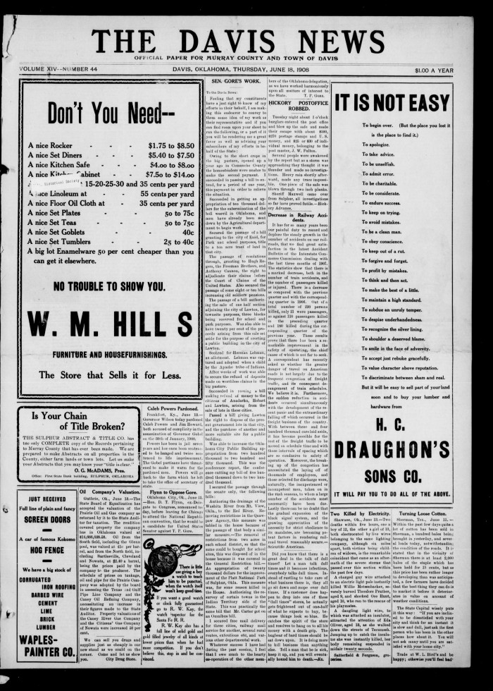 The Davis News (Davis, Okla.), Vol. 14, No. 44, Ed. 1 Thursday, June 18, 1908, newspaper, June 18, 1908; Davis, Oklahoma. ( accessed July 1, 2018), The Gateway to Oklahoma History, ; crediting Oklahoma Historical Society.